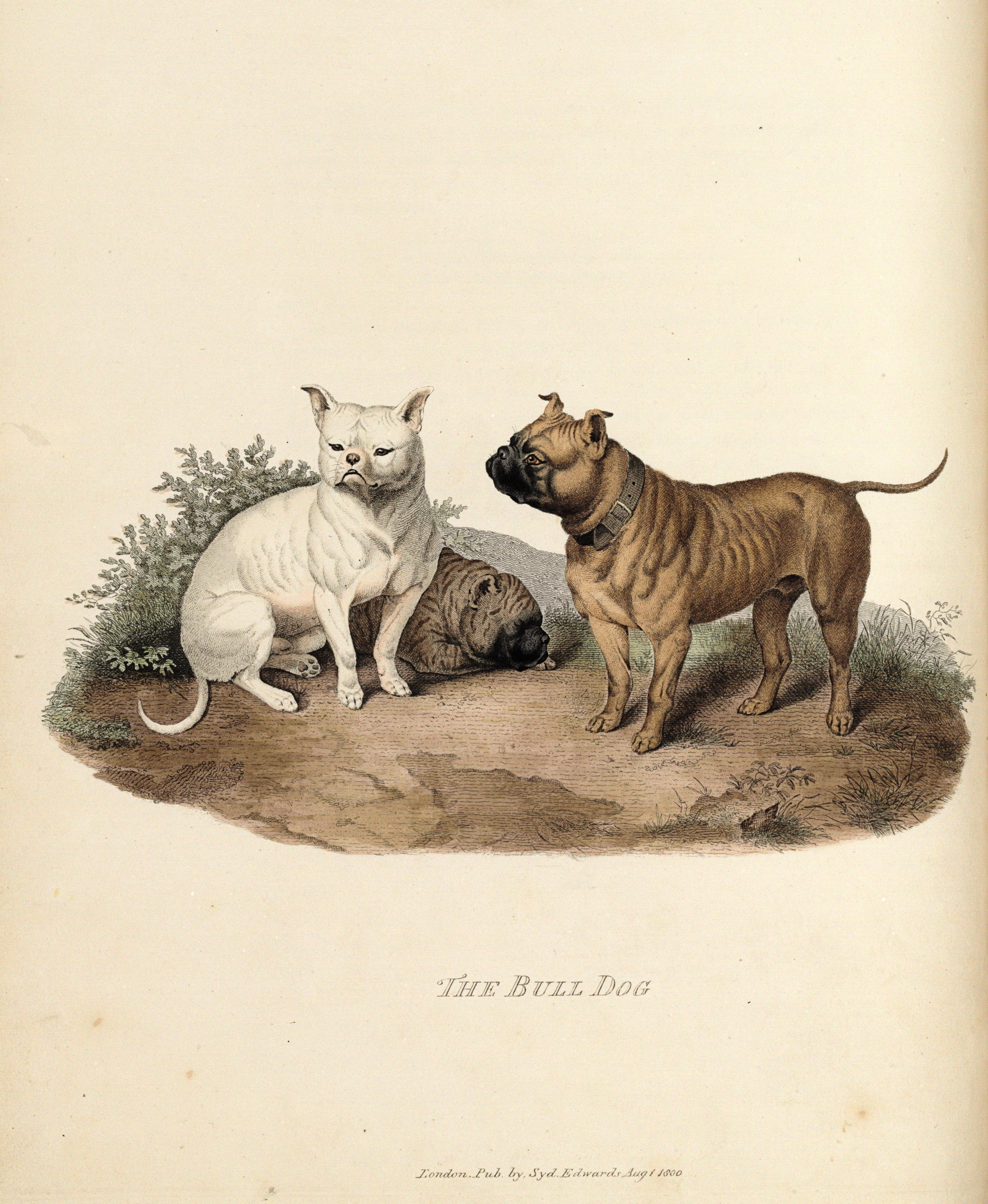 "The Bull Dog". EDWARDS, Sydenham (c.1769-1819). Cynographia Britannica: Consisting of Coloured Engravings of Various Breeds of Dogs Existing in Great Britain. London: C. Whittingham, 1800 [-1805]. August 1 1800. ( Sour mug (probably pug cross) type old english bulldog. 18th century.